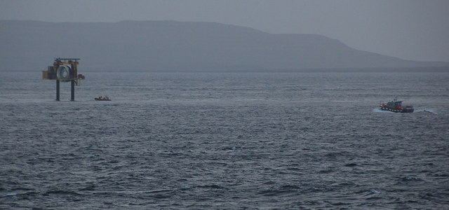 Tidal Energy Generator, Eday A unique piece of kit at the moment. The turbine is the polo mint thingy which looks like an aero-engine. It rides down the two poles like a lift and sits on the seabed 100 feet below. The tide turns the blades.